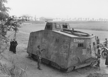 A captured German tank at Saleux, an A7V, with the name Elfriede III, used by the enemy for the first time at Villers-Bretonneux, in the attack of 24 April 1918.